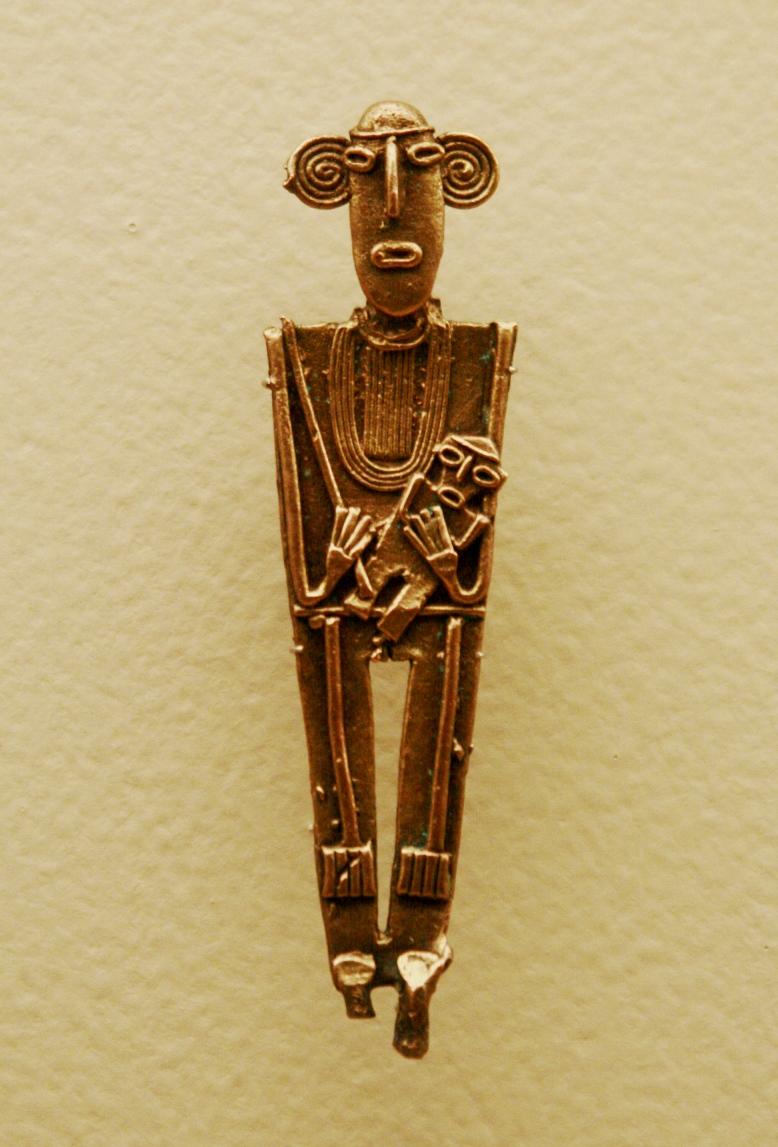 A mother holds her son on her left arm and a kind of staff in her right hand. Votive Figure Gold A.D. 600 - A.D. 1600 8,4 x 2,5 cm Reference: Museo del Oro